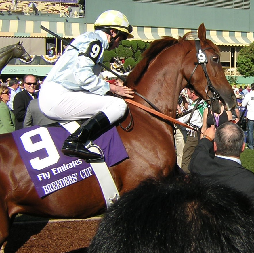 Conduit in the walking ring for the 2008 Breeders' Cup Turf